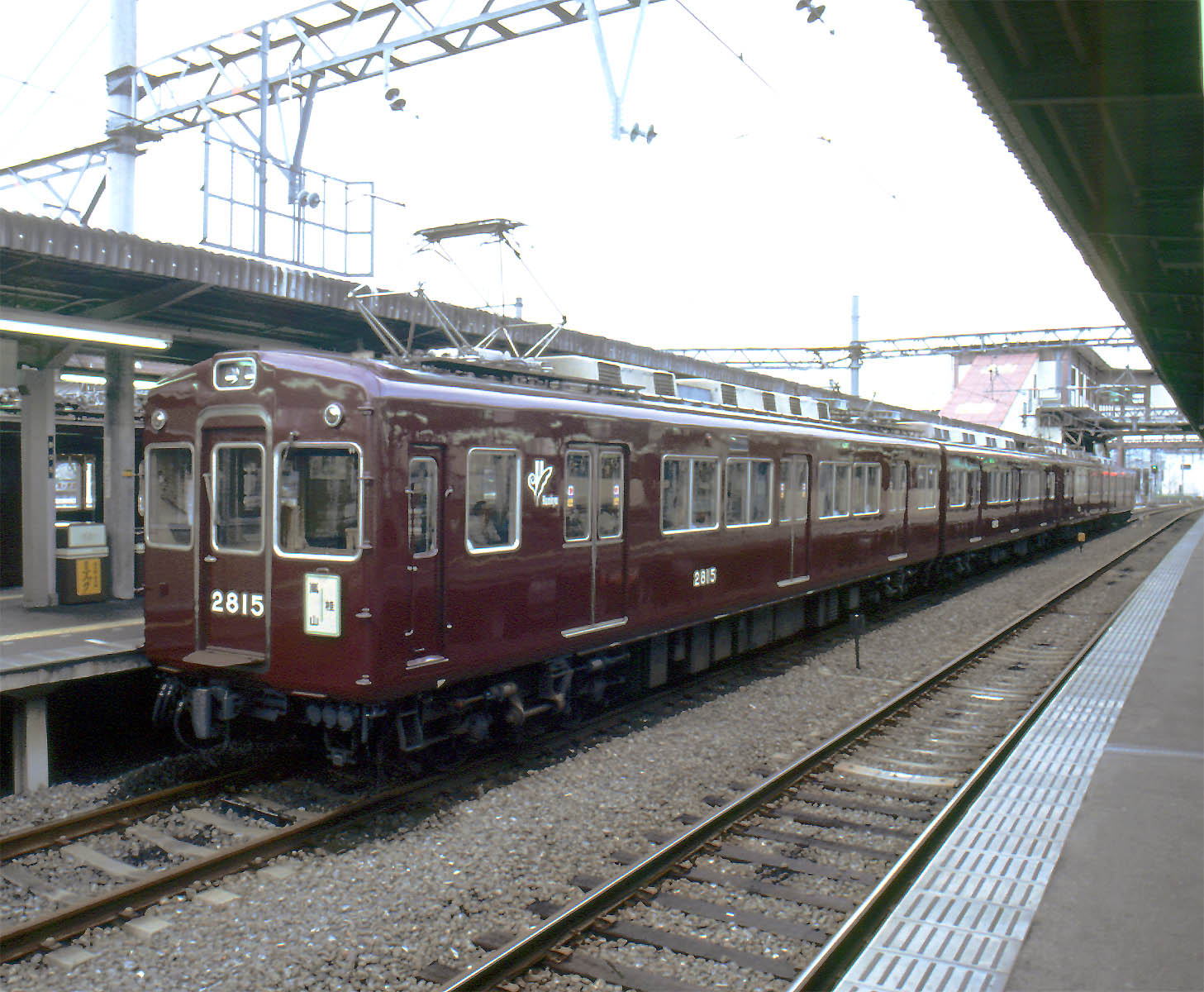 Hankyu Railway Series 2800 EMU (Formation 2815 for Arashiyama Line) at Katsura Station.